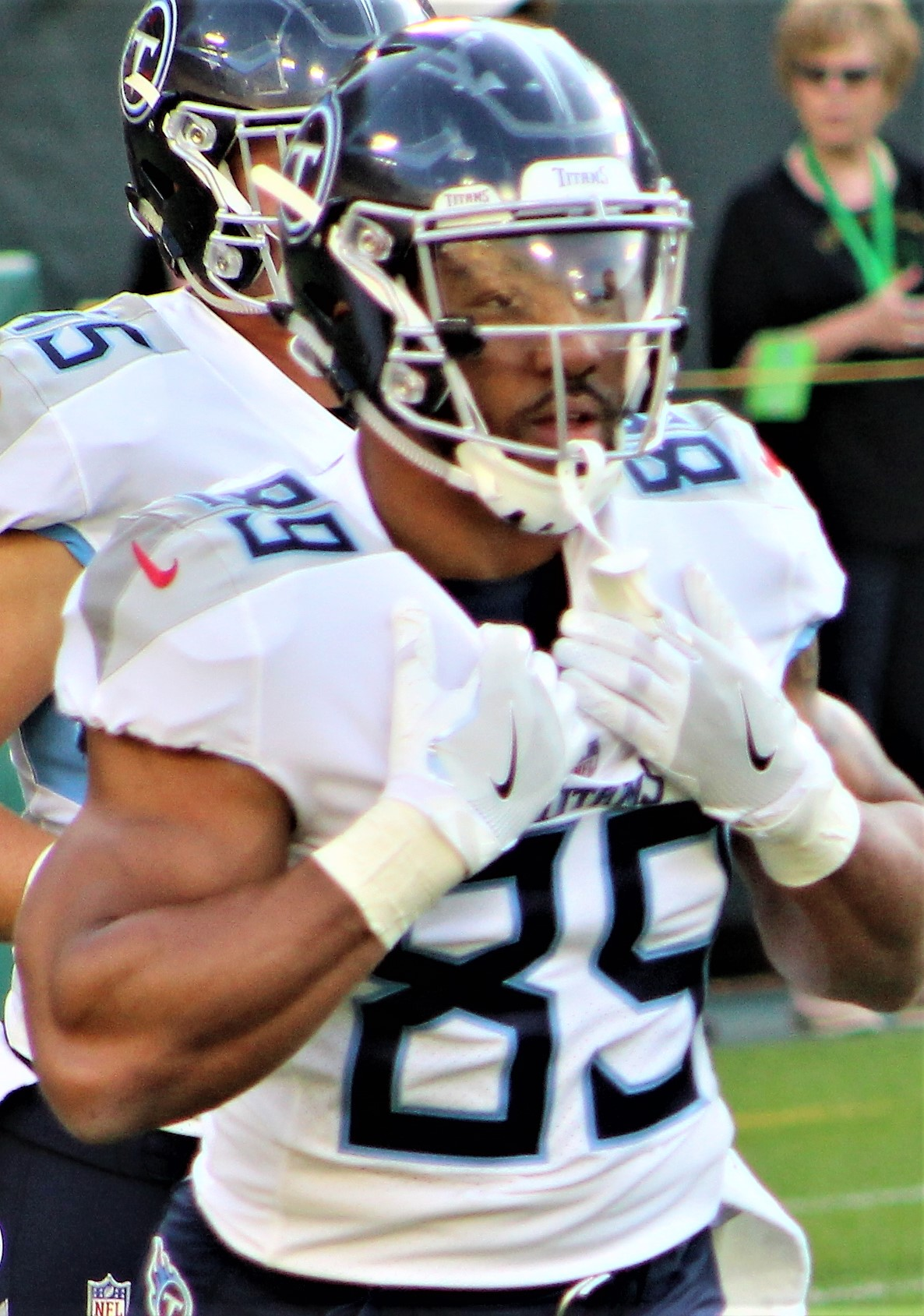 Jerome Cunningham, Tennessee Titans at Green Bay Packers (Preseason), August 9, 2018